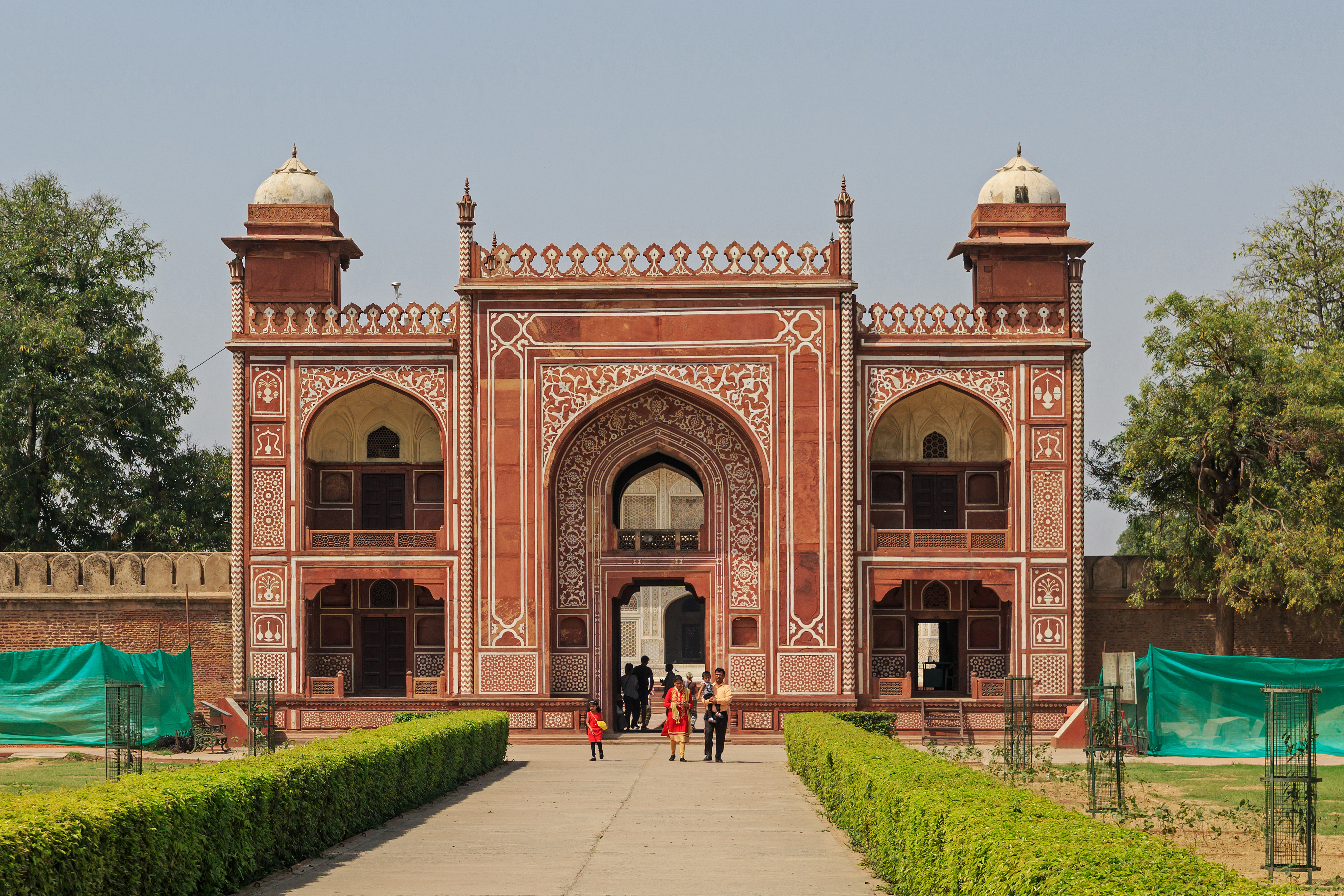 Tomb of Itmad-Ud-Daulah in Agra, India.